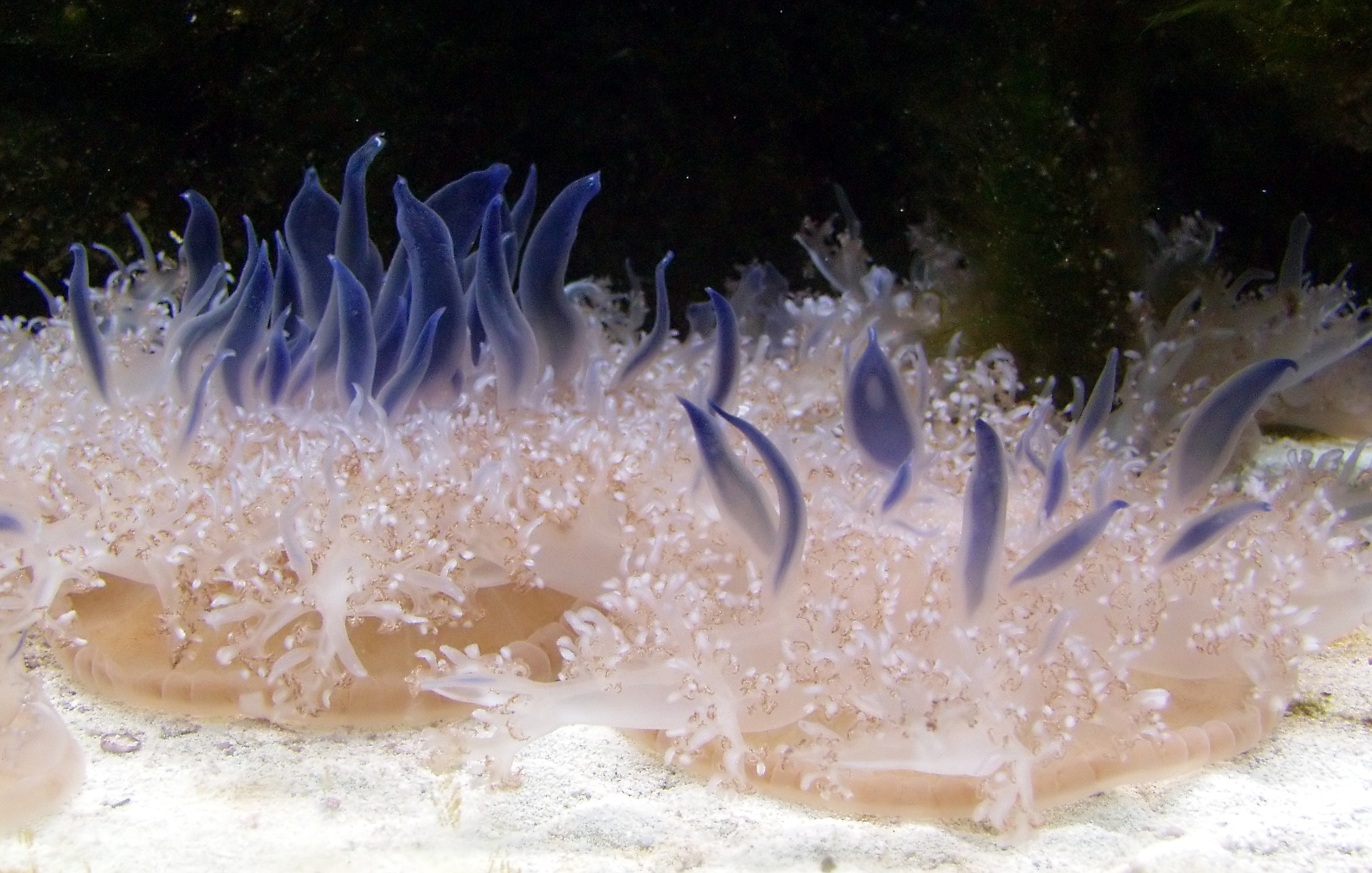 Cassiopea andromeda, Zoo Cologne, Germany